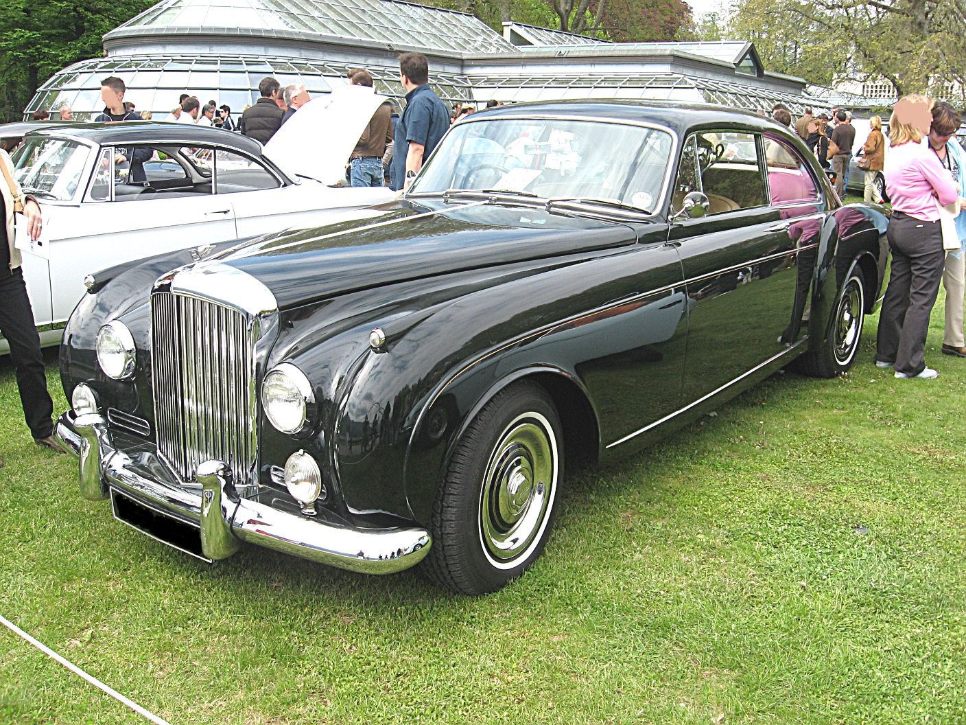 Subject: Bentley S1 Continental, coachbuilding by Mulliner Date:April 27th, 2008 Event:Concorso d’Eleganza”Villa d’Este” 2008 Place/Country: Cernobbio (CO), Italy I release all rights in the public domain.